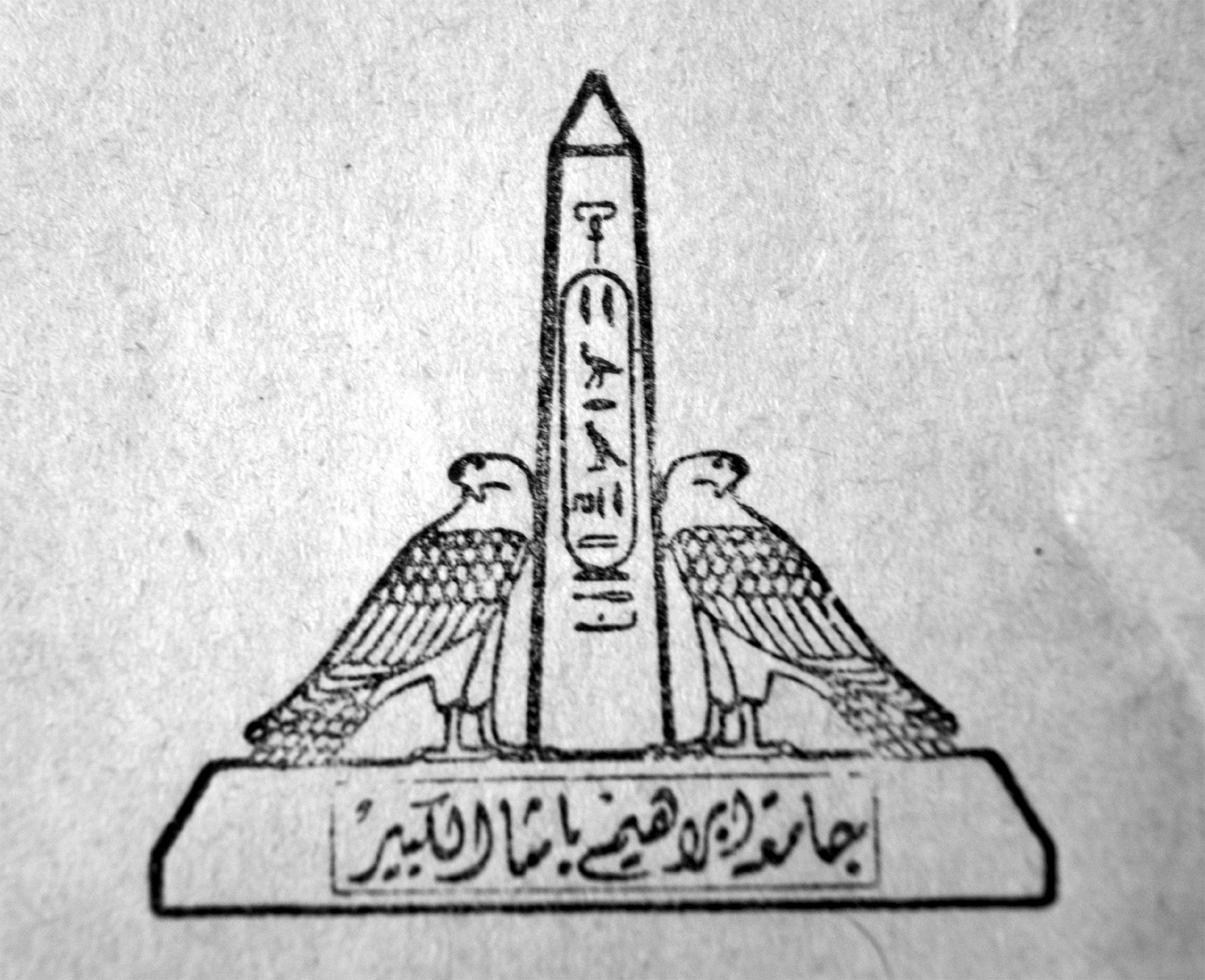 The name of Ain Shams University was Ibrahim Pasha University 1950-1952